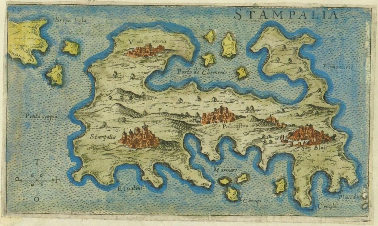 Map of the island of Astypalaia (Stampalia) in Greece, created in 1597 by the Venetian Giacomo (Jacomo) Franco (1550-1620) for his book Viaggio da Venetia a Constantinopoli per Mare.